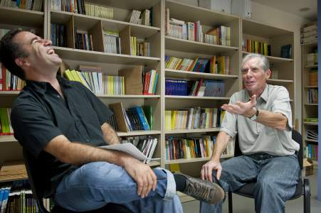 The basque journalists Imanol Murua Uria and Mariano Ferrer.